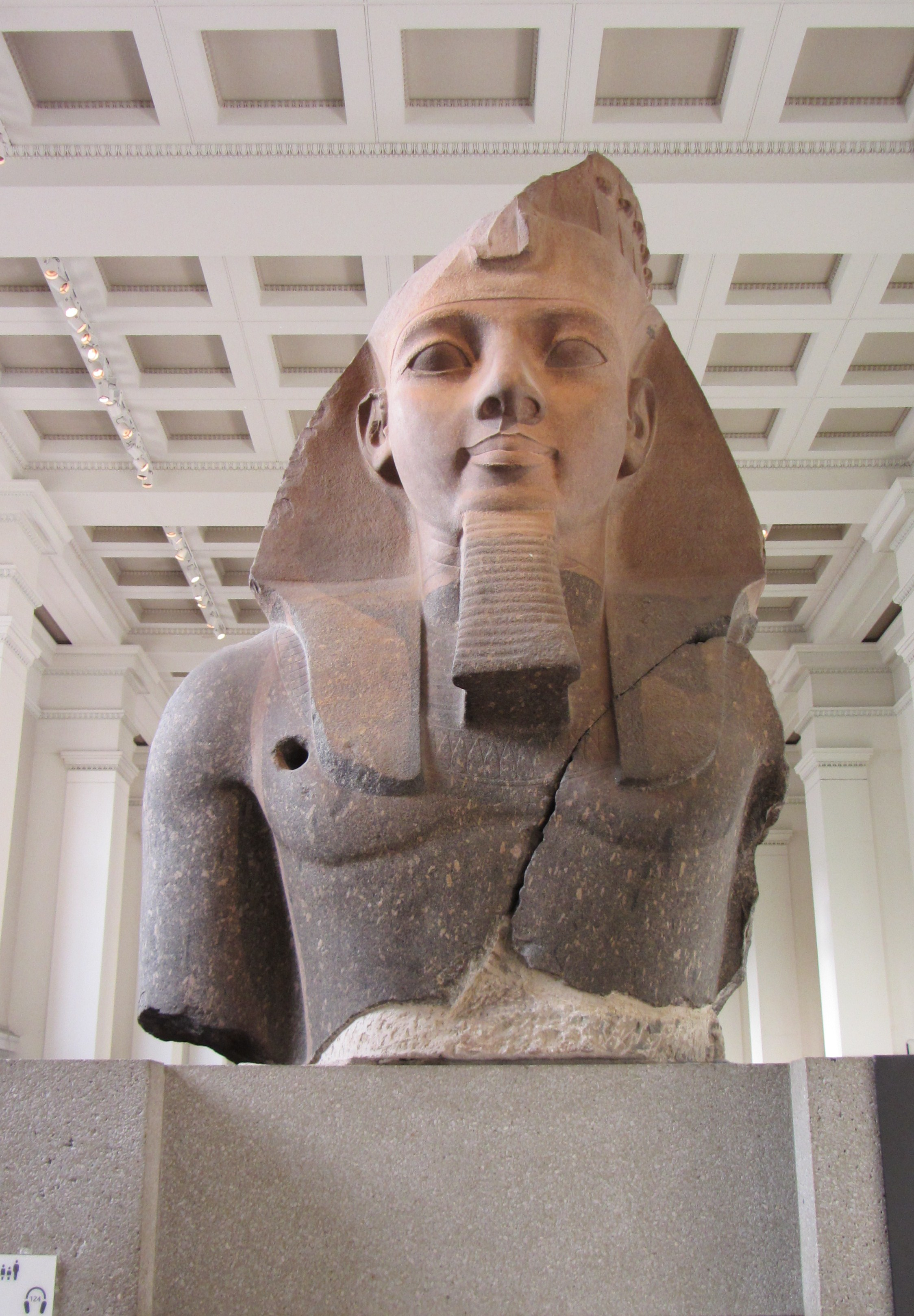 Statue of Ramesses II, the 'Younger Memnon', from the Ramesseum, Thebes, Egypt, 19th Dynasty, about 1250 BC. British Museum (19).